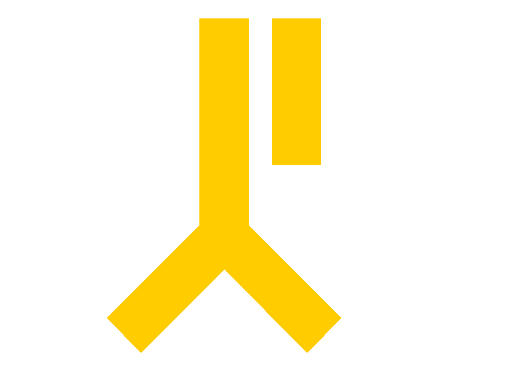 Mark of Ww2 GermanDivision Panzer 2 - 1931-1943